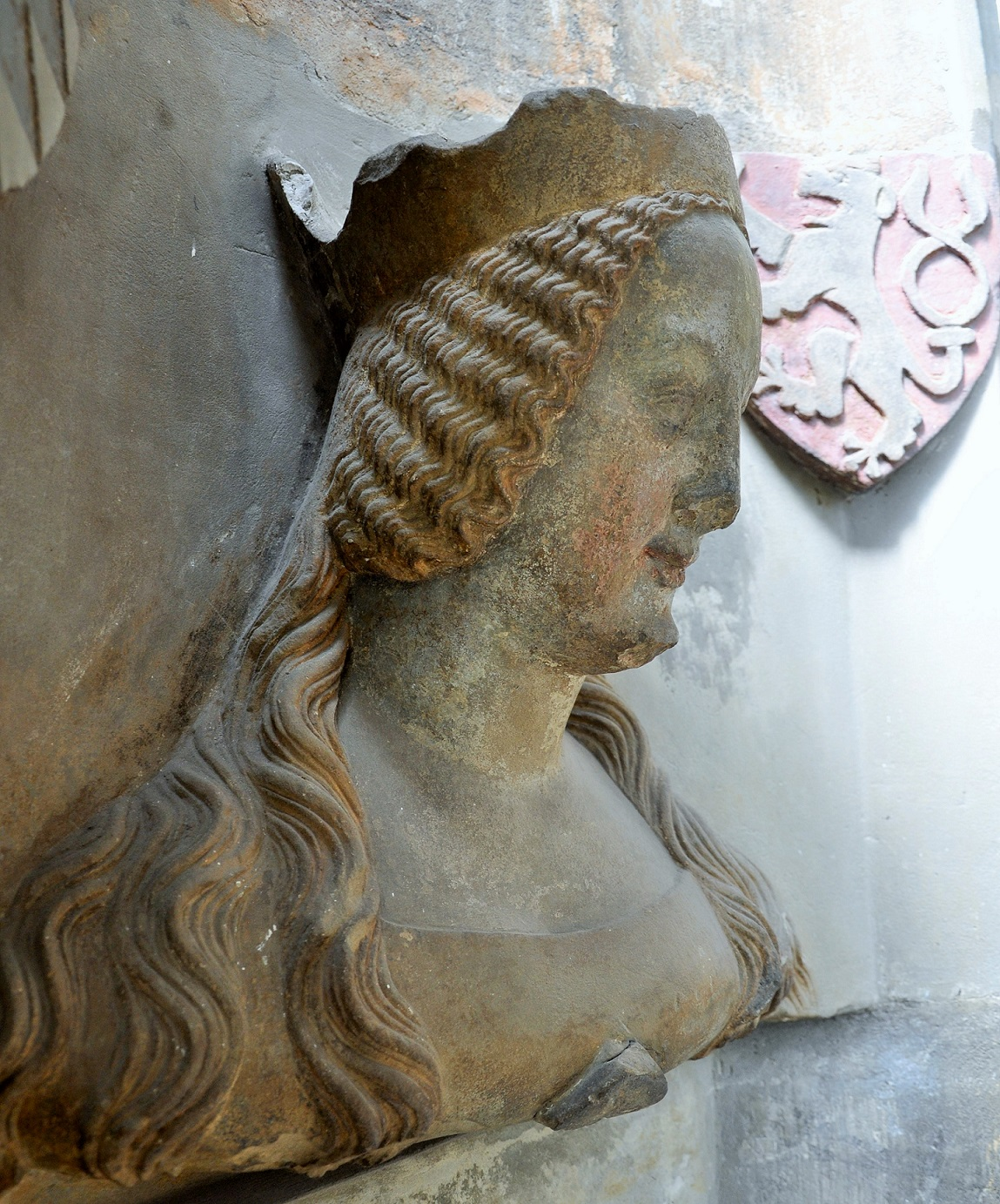 Bust of Johanna of Bavaria, Queen of Bohemia in Prague Cathedral.